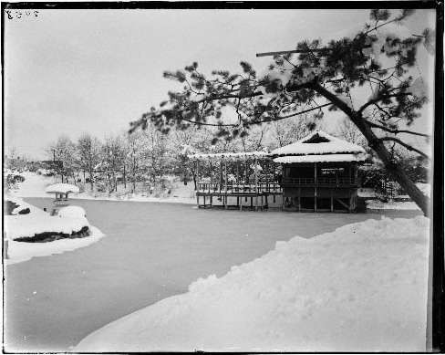 Brooklyn Botanic Garden, Japanese Garden. Tea house. 1915. Japanese Hill-and-Pond Garden Photograph by: Louis Buhle Date: March 8, 1915 Negative number: 02458